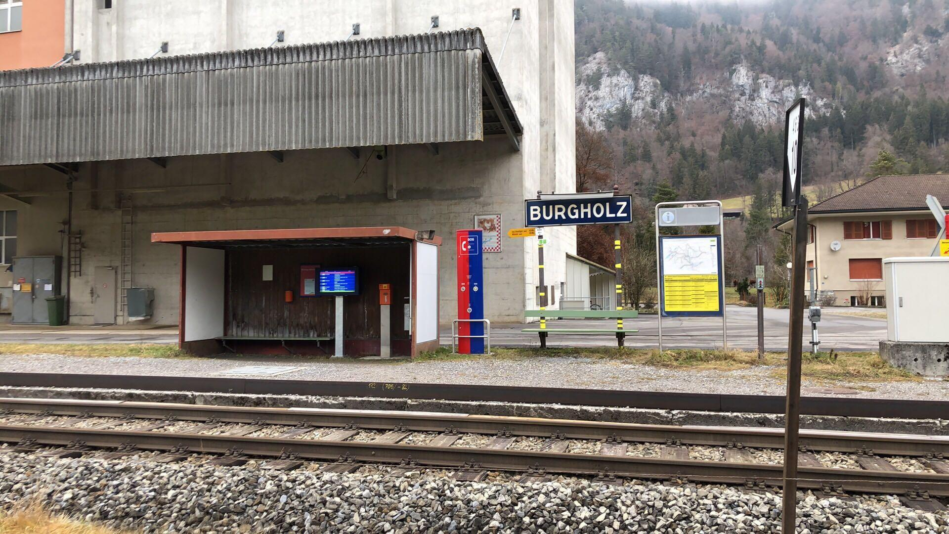 Burgholz railway station; the Mühle Burgholz AG gristmill looms behind.